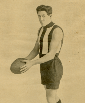 Photograph of Bill Twomey from 1918-1922